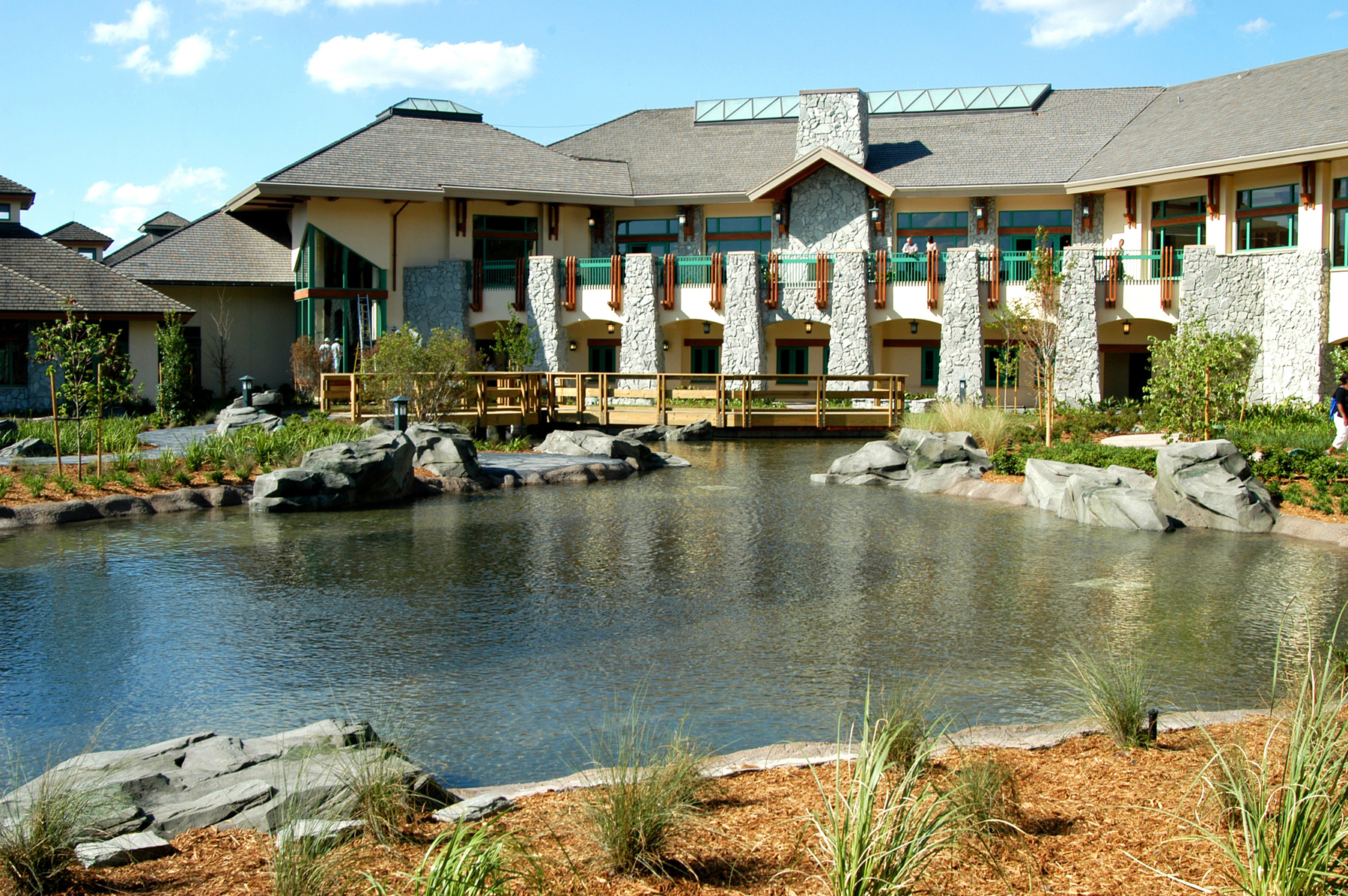 The Shades of Green Armed Forces Recreation Center, affectionately known as "the house that Big Jim built," is one of the premier rest and recuperation destinations in the continental United States for troops and their Families. The Shades of Green at Walt Disney World Resort sits just outside the gates of The Magic Kingdom. (US Army Photo)